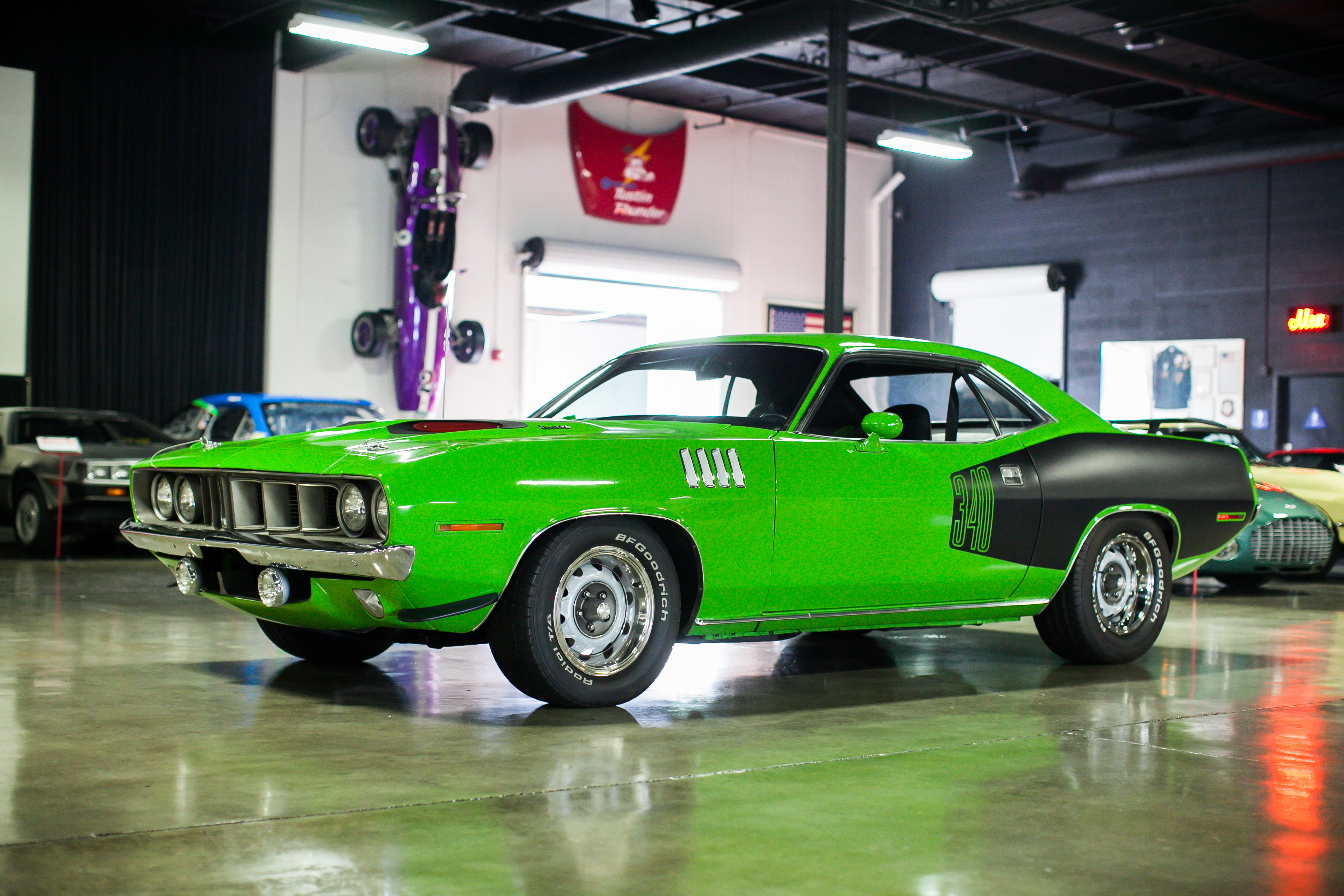 The 1973 'Go-Go' green Plymouth Barracuda housed at the Marconi Automotive Museum